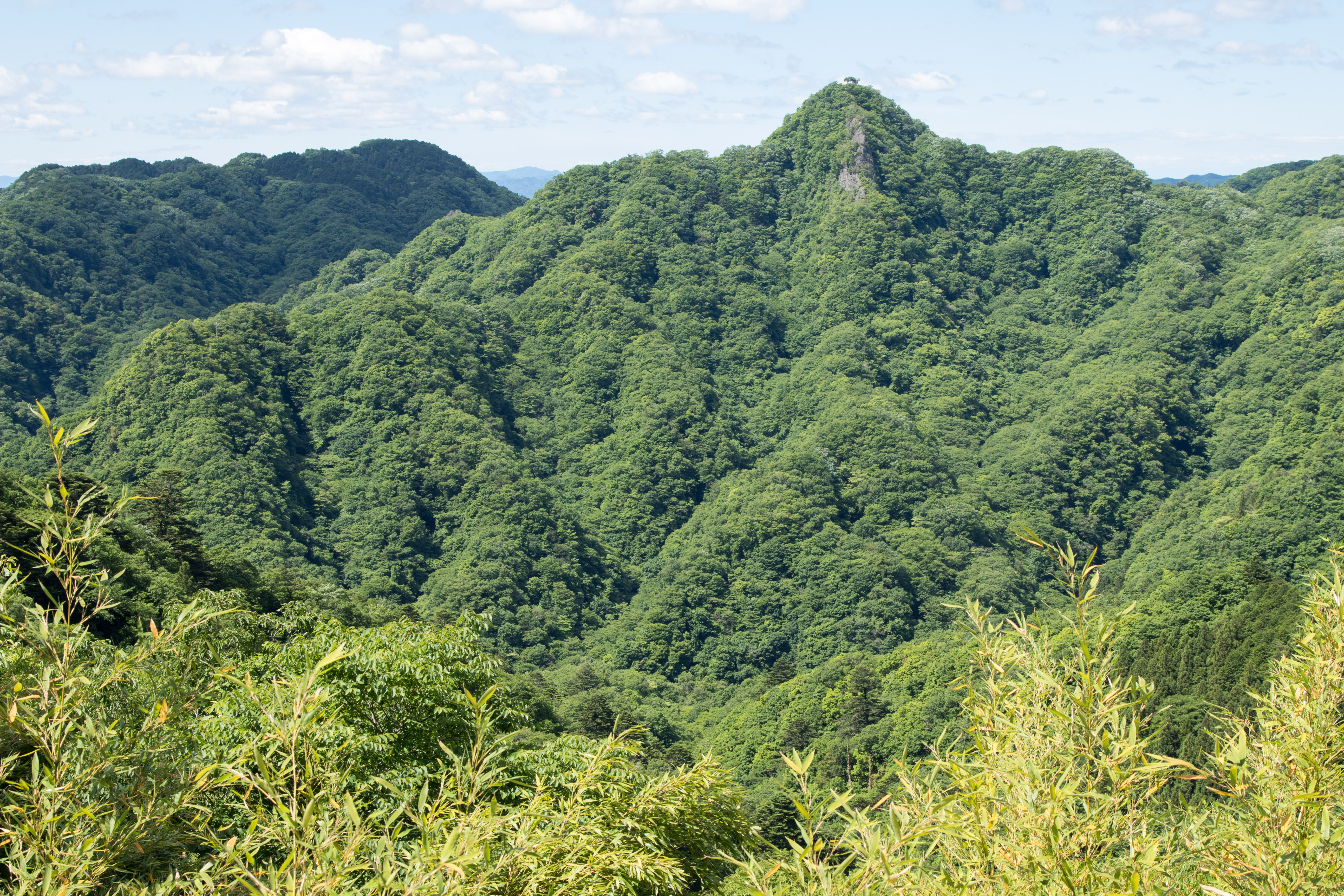 Mount Myo(Myo-yama), Hitachi-omiya City, Ibaraki Pref., Japan